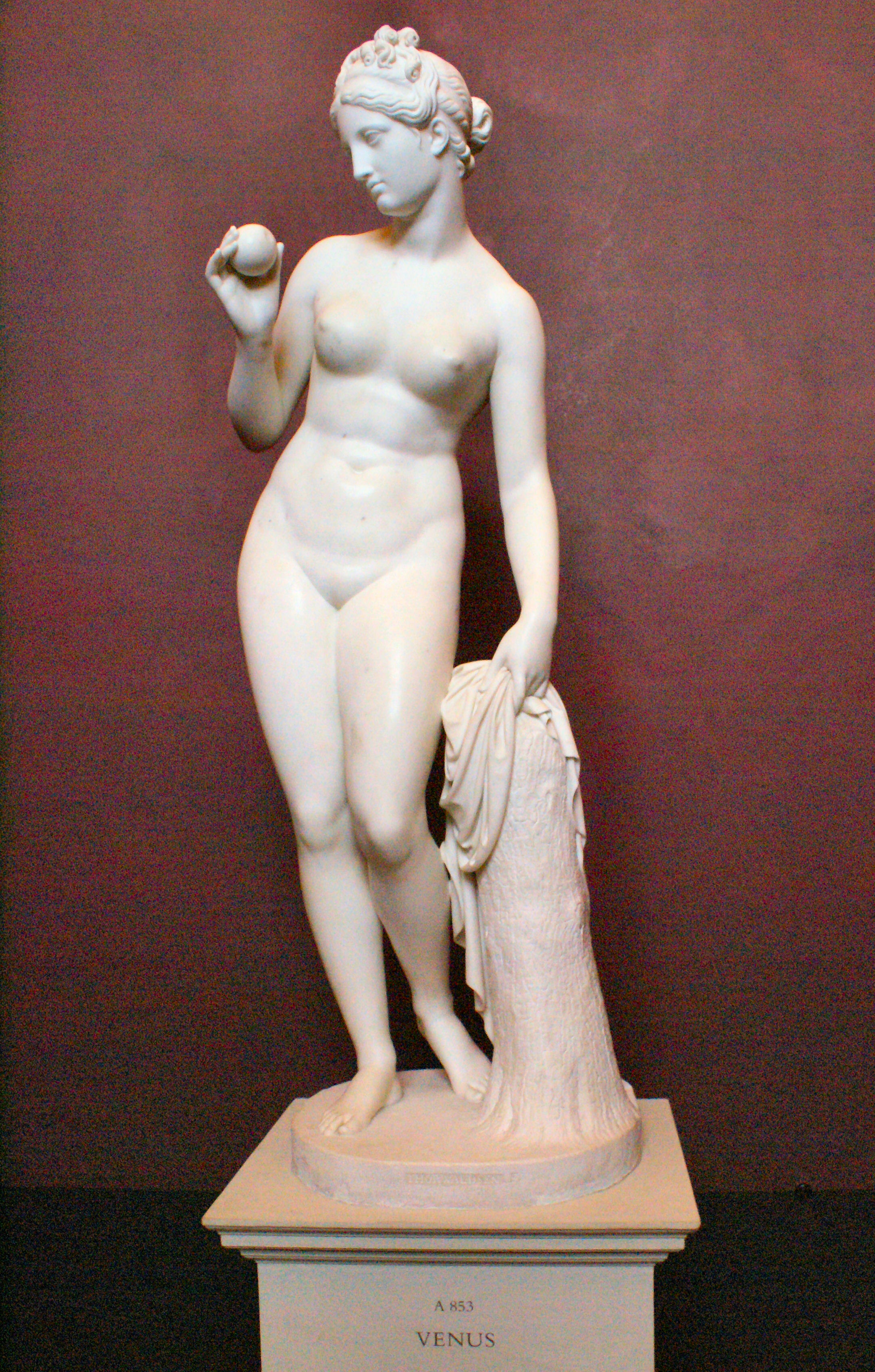 Venus with the apple, by Bertel Thorvaldsen 1813-16, in Thorvaldsens Museum, Copenhagen